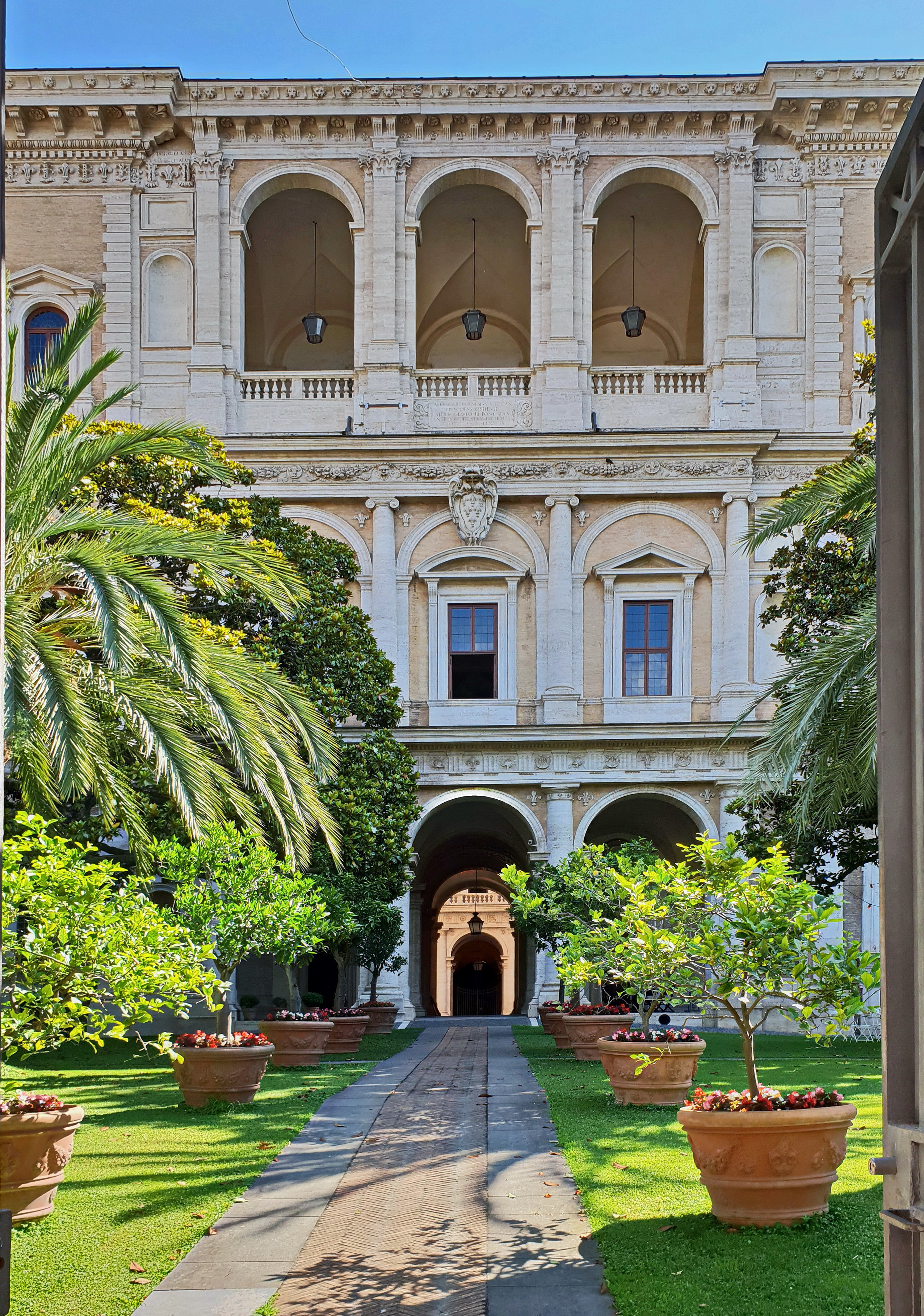 Palazzo Farnese (Rome); View from Via Giulia with garden and loggia.